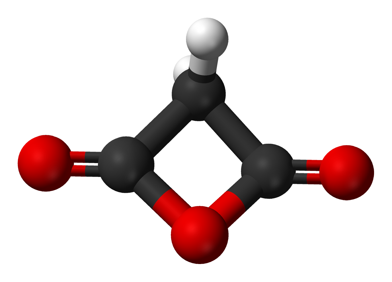 Ball-and-stick model of the malonic anhydride molecule.